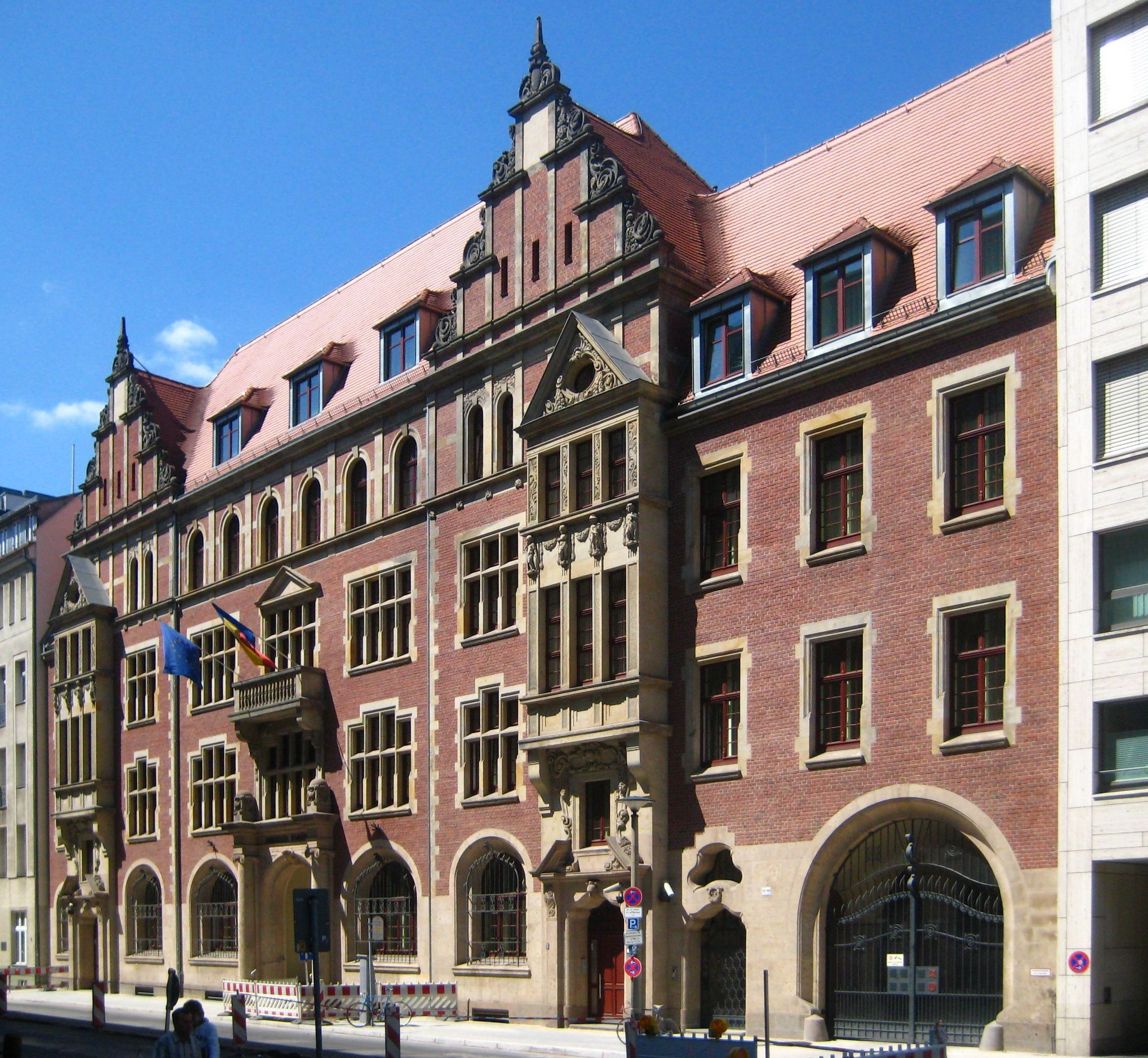 Botschaft von Rumänien in der Dorotheenstraße 62/66 in Berlin-Mitte, erbaut 1905-1906 als Berliner Postamt NW 7 im typischen repräsentativen Stil kaiserlicher Postbauten; der Architekt ist unbekannt. Das Gebäude ist denkmalgeschützt.